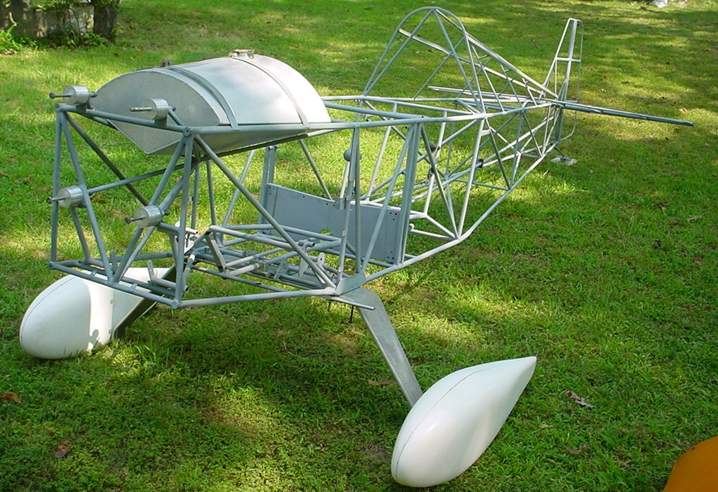 Sonerai 2 Frame